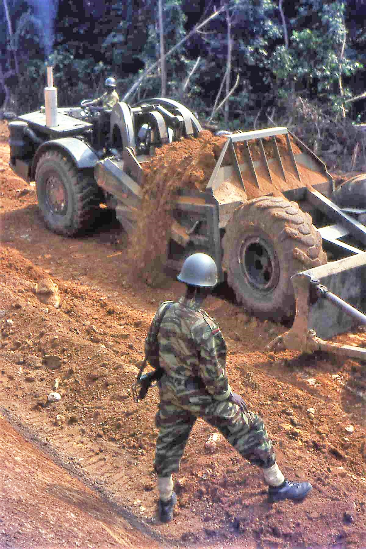 Roadworks on the Bafang-Yabassi track. Cameroon This is an image with the theme "Africa on the Move or Transport" from: Cameroon